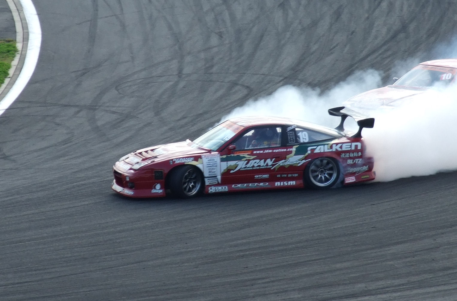 Yoshinori Koguchi drifting his 180sx at the D1GP round at Fuji Speedway, Shizuoka, Japan, 2007.